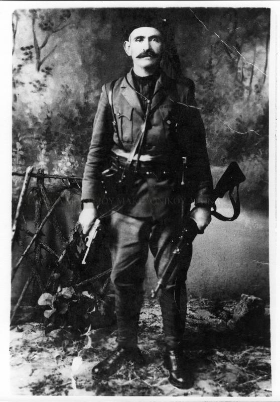 Stavros Kotsopoulos (Σταύρος Κωτσόπουλος) a Greek Macedonian of Florina (Greek: Φλώρινα) (Slavic: Lerin, Лерин) Greece.